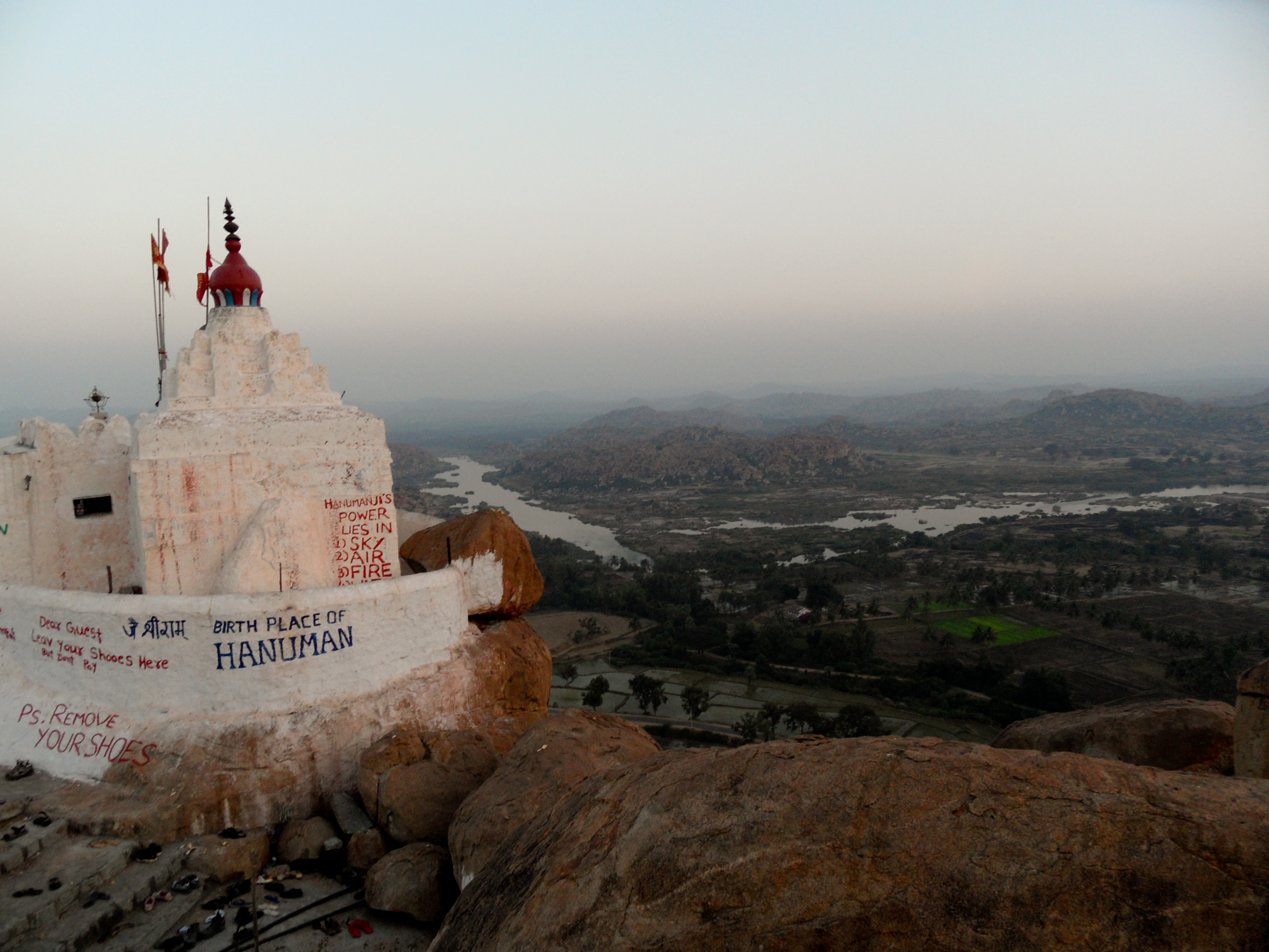 Hanuman (Anjaneya) temple, birthplace of the monkey god Hanuman; Hampi, Karnataka, India